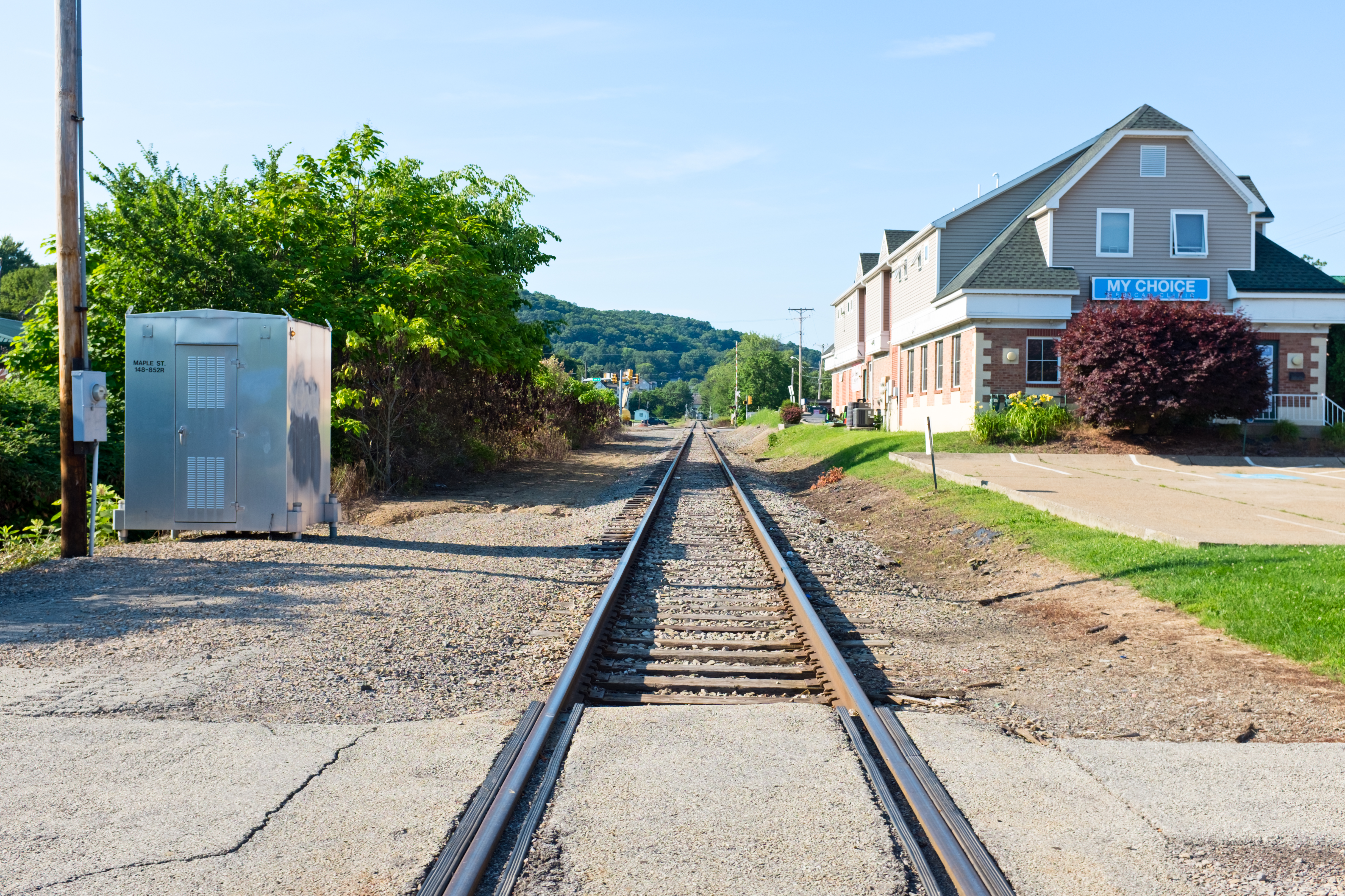 Railroad tracks through Indiana Pennsylvania (Buffalo & Pittsburgh RR, Indiana Branch